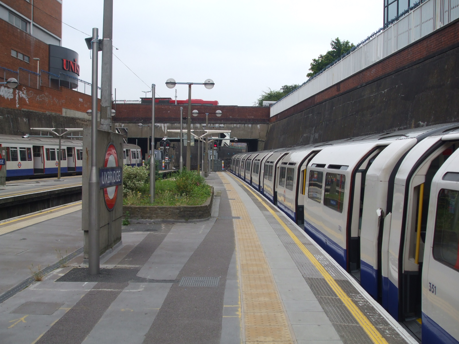 Uxbridge tube station platforms 1 (right) and 2 (left, serving the centre track but presently not used as of July 2008), looking west